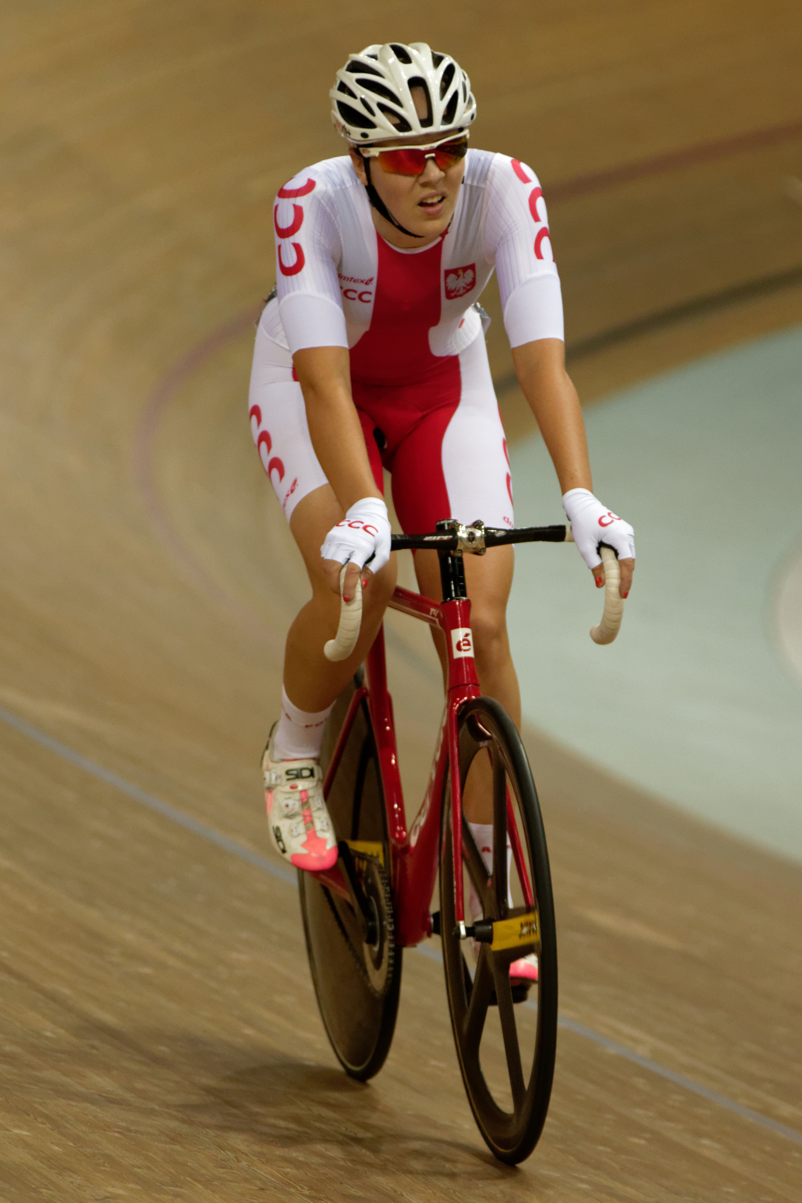 2016 UEC European Track Championships - Łucja Pietrzak from Poland